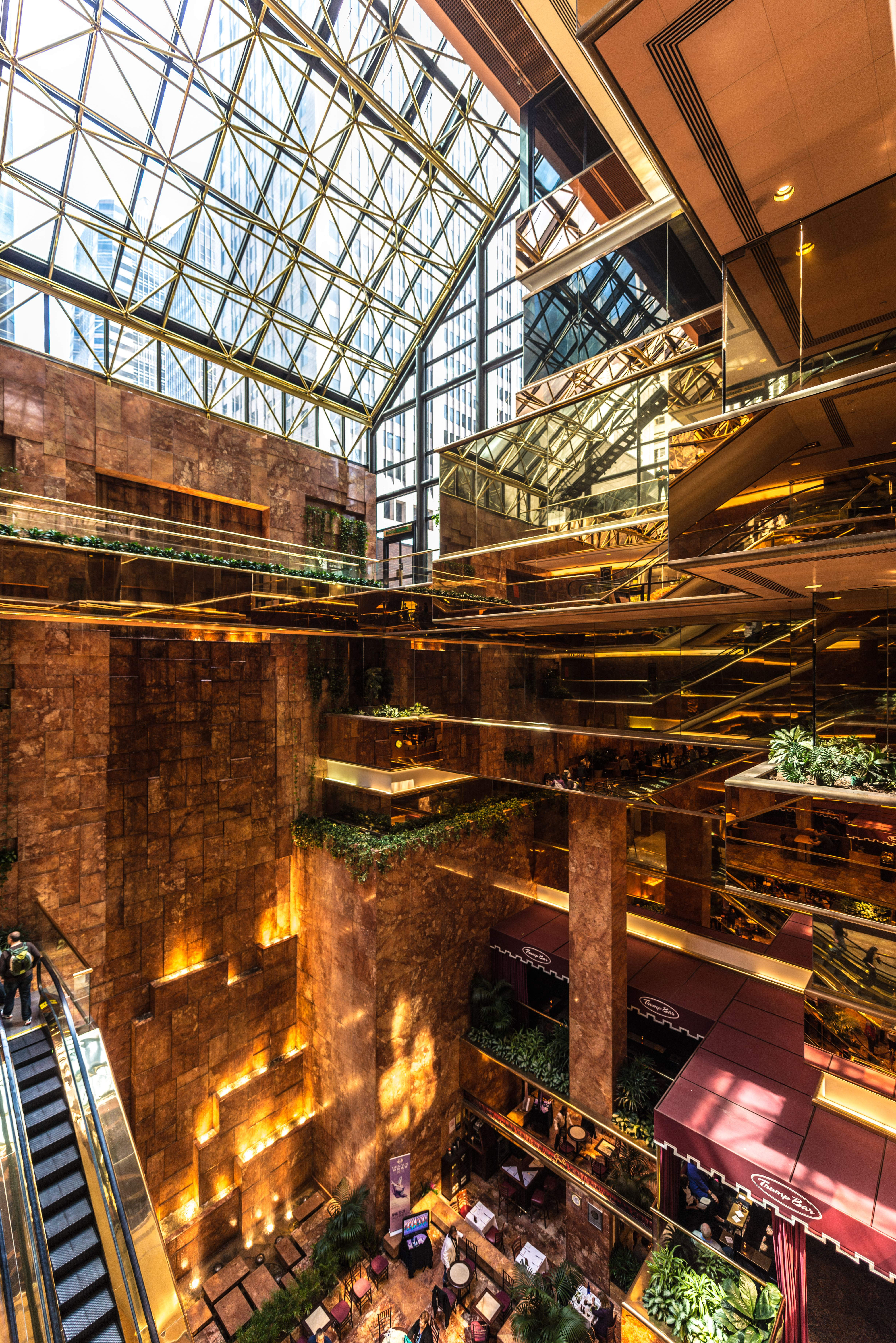 The atrium of the Trump Tower, New York.